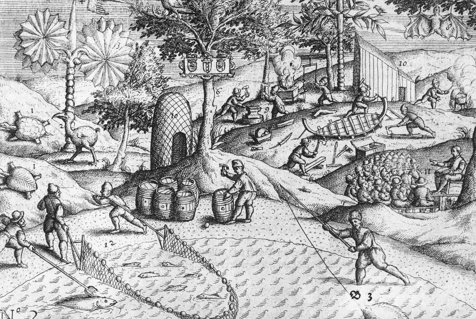 Copper engraving (made in the Netherlands) showing Dutch activities on the shore of Mauritius, as well as the first published depiction of a dodo bird (Raphus cucullatus), on the left. The now extinct tortoise Cylindraspis and an unidentified Pteropus (bat) are shown as well.